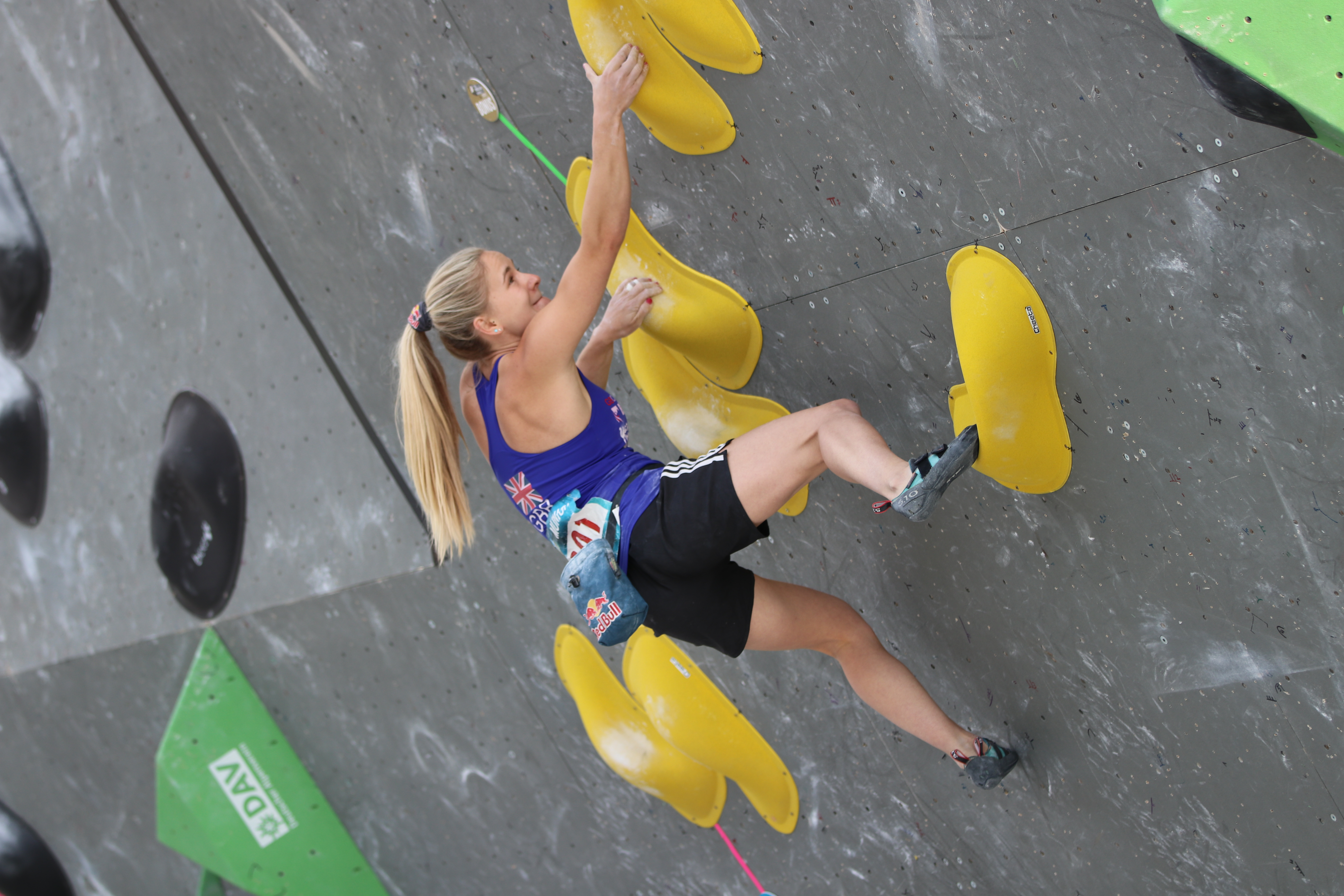 Shauna Coxsey, sports climber from Great Britain, at the Boulder Worldcup 2017 in Munich, Germany